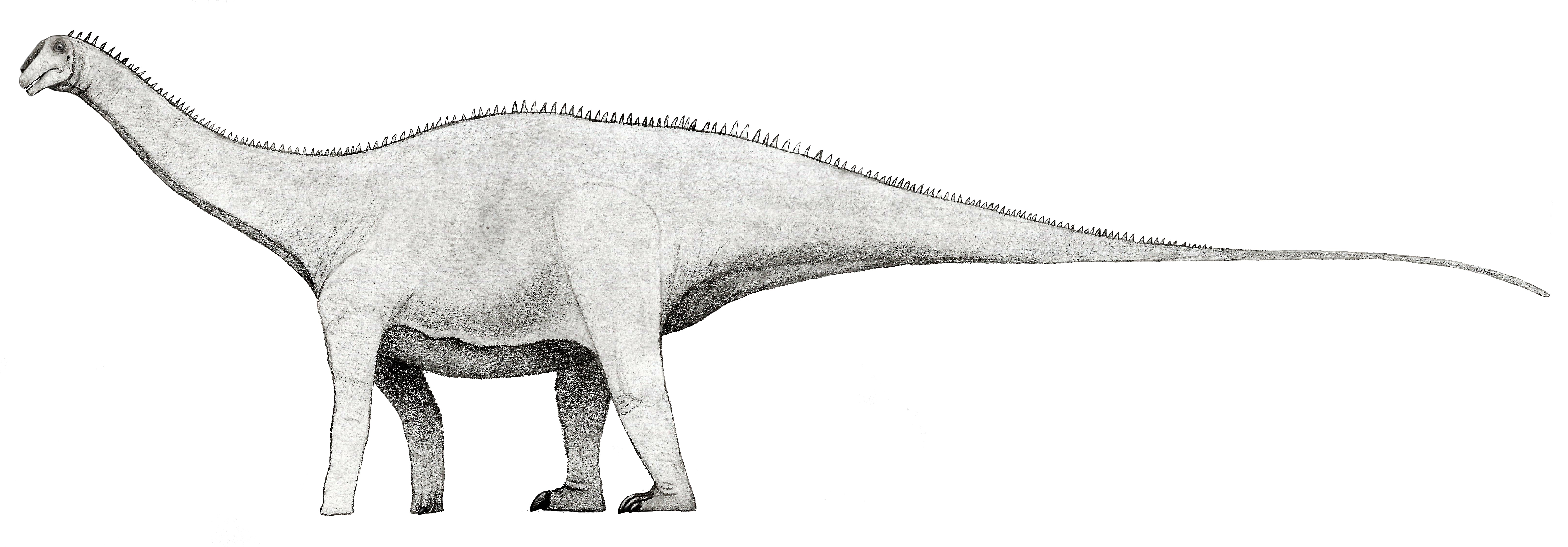 Reconstruction in life of Xenoposeidon, alternative version without spines. Brief advice by Rubén Molina-Pérez. References Taylor, M. P.; Wedel, M. J.; Naish, D. (2009). "Head and neck posture in sauropod dinosaurs inferred from extant animals". Acta Palaeontologica Polonica. 54 (2): 213–220. Marugán-Lobón, J. S.; Chiappe, L. M.; Farke, A. A. (2013). "The variability of inner ear orientation in saurischian dinosaurs: Testing the use of semicircular canals as a reference system for comparative anatomy". PeerJ. 1: e124. PMC 3740149 . PMID 23940837. Wilson, Jeffrey A., and Ronan Allain. 2015. Osteology of Rebbachisaurus garasbae Lavocat, 1954, a diplodocoid (Dinosauria, Sauropoda) from the early Late Cretaceous-aged Kem Kem beds of southeastern Morocco. Journal of Vertebrate Paleontology35(4):e1000701. Paul 2017. Restoring Maximum Vertical Browsing Reach in Sauropod Dinosaurs (Neck Function in Sauropods) Taylor MP. (2017) Xenoposeidon is the earliest known rebbachisaurid sauropod dinosaur. PeerJ Preprints 5:e3415v1 Jaime A. Headden 2012. On sauropod cheeks. Posted on October 15, 2012